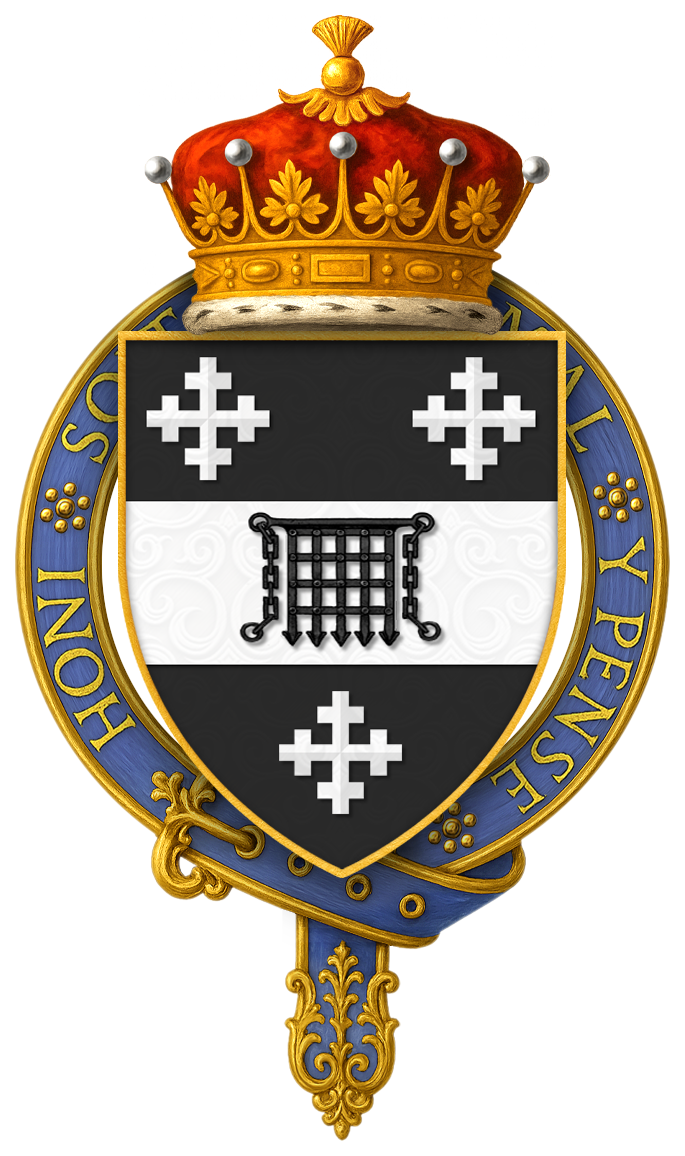 Garter-encircled shield of arms of H. H. Asquith, 1st Earl of Oxford and Asquith, KG, as displayed on his Order of the Garter stall plate in St. George's Chapel.